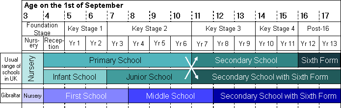 Diagram comparing the common structures of schooling in the United Kingdom and Gibraltar